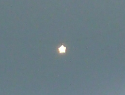 Photograph showing the suspended star contrasting with the cloudy sky